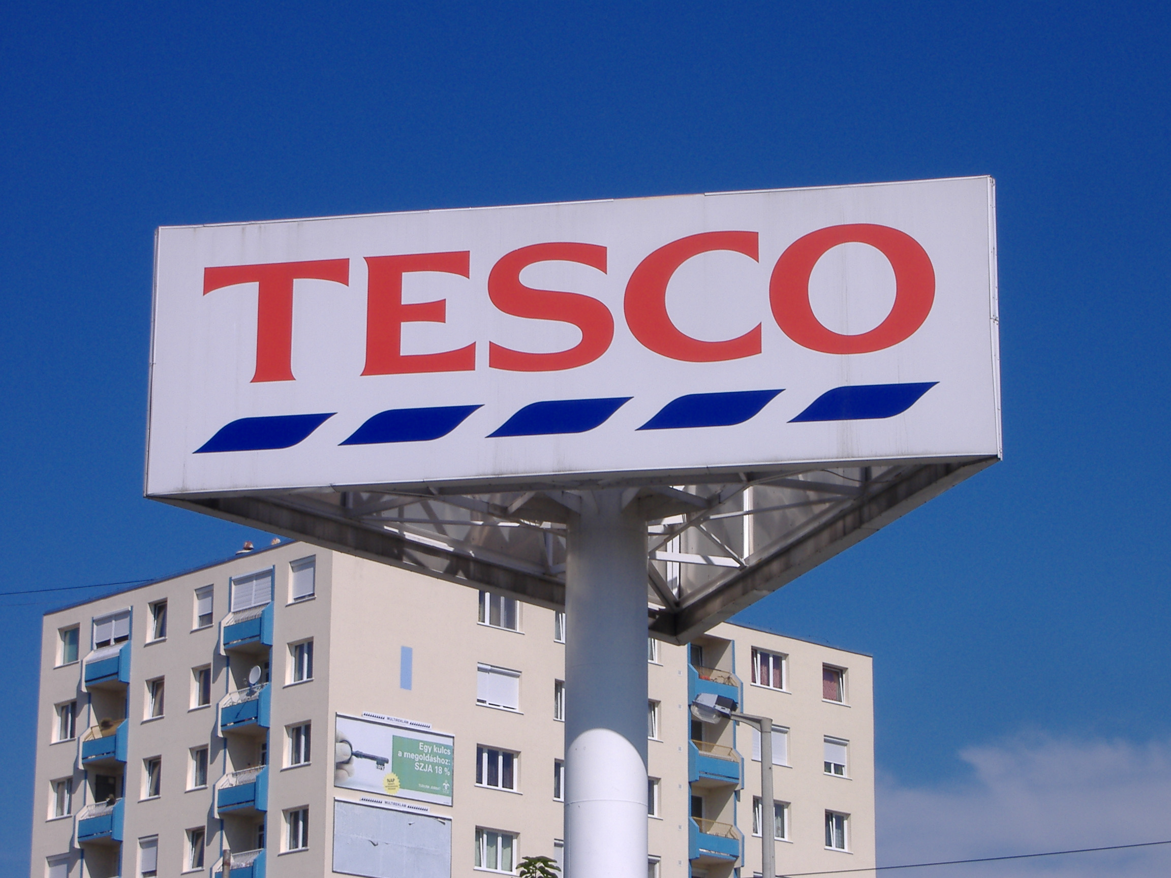 Tesco sign in Szeged, Hungary.